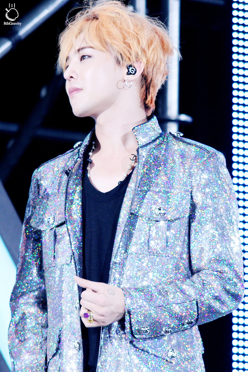 G-Dragon on Infinite Challenge Yeongdong Expressway Music Festival 2015